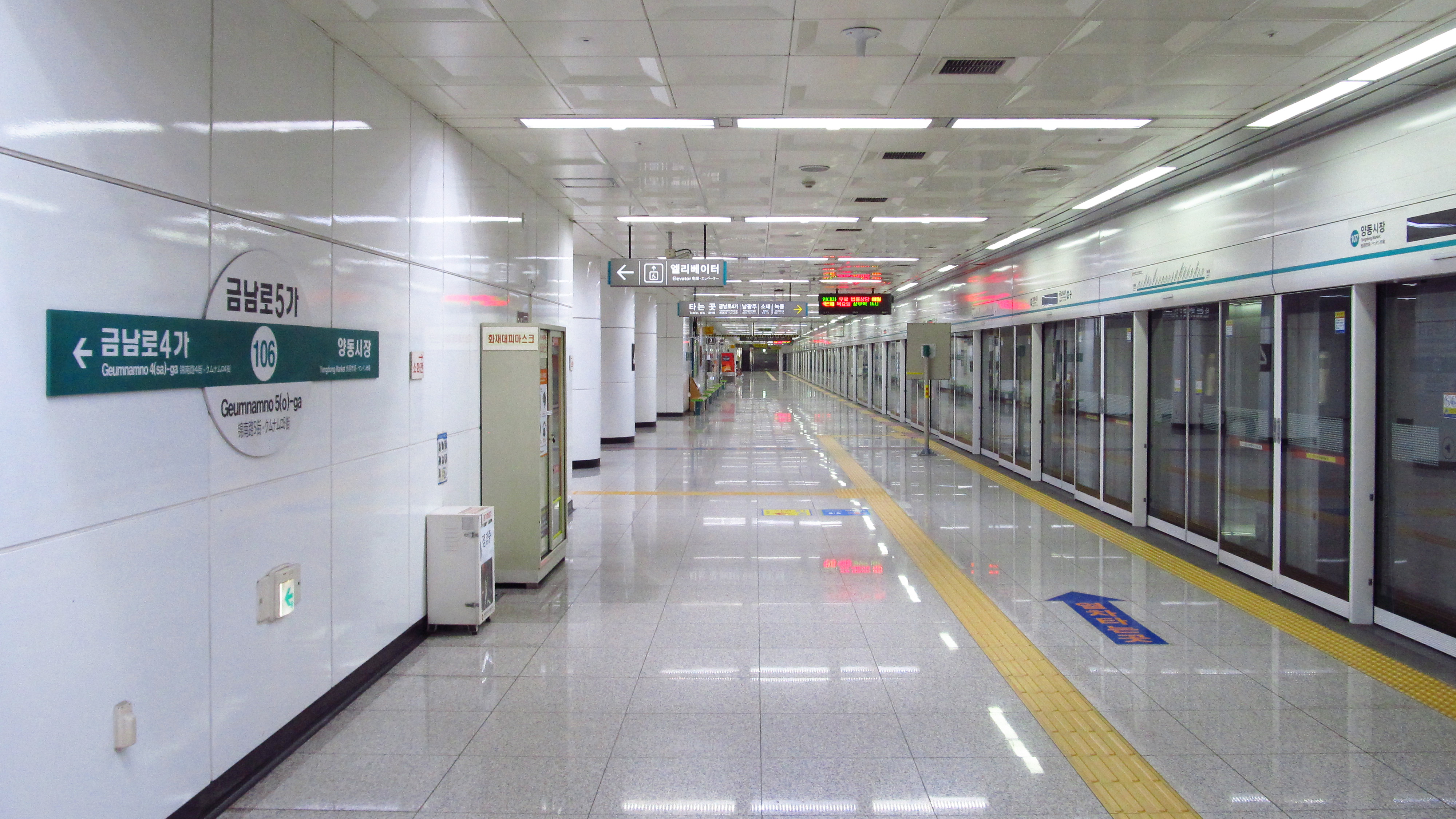 The platform at Geumnamno 5-ga Station on Gwangju Metro Line 1 in Buk-gu, Gwangju, Republic of Korea(South Korea)